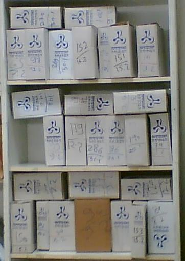 Packages of learning materials of the Open University of Israel are waiting to the students, on local Post Office.